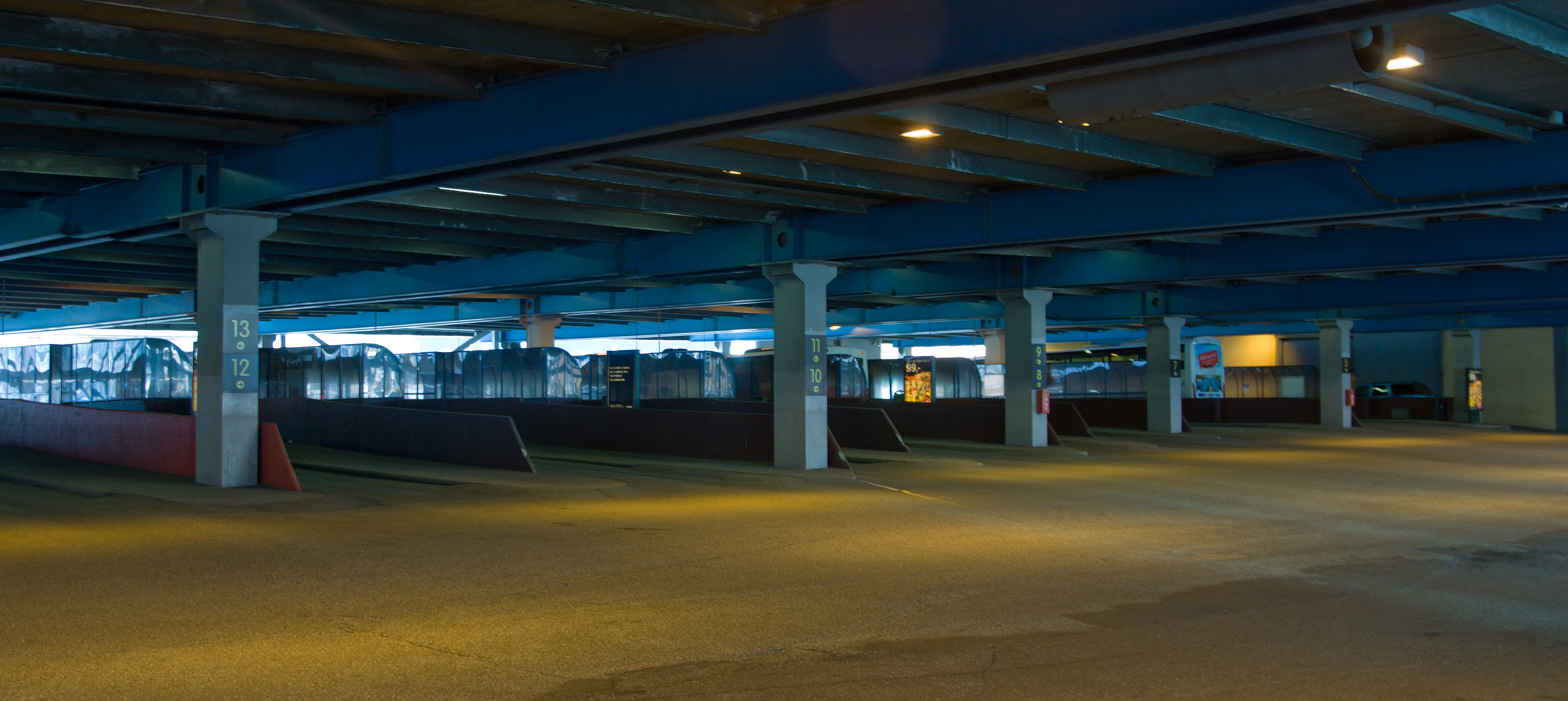 The central bus station in the city centre of Bergen, Norway.